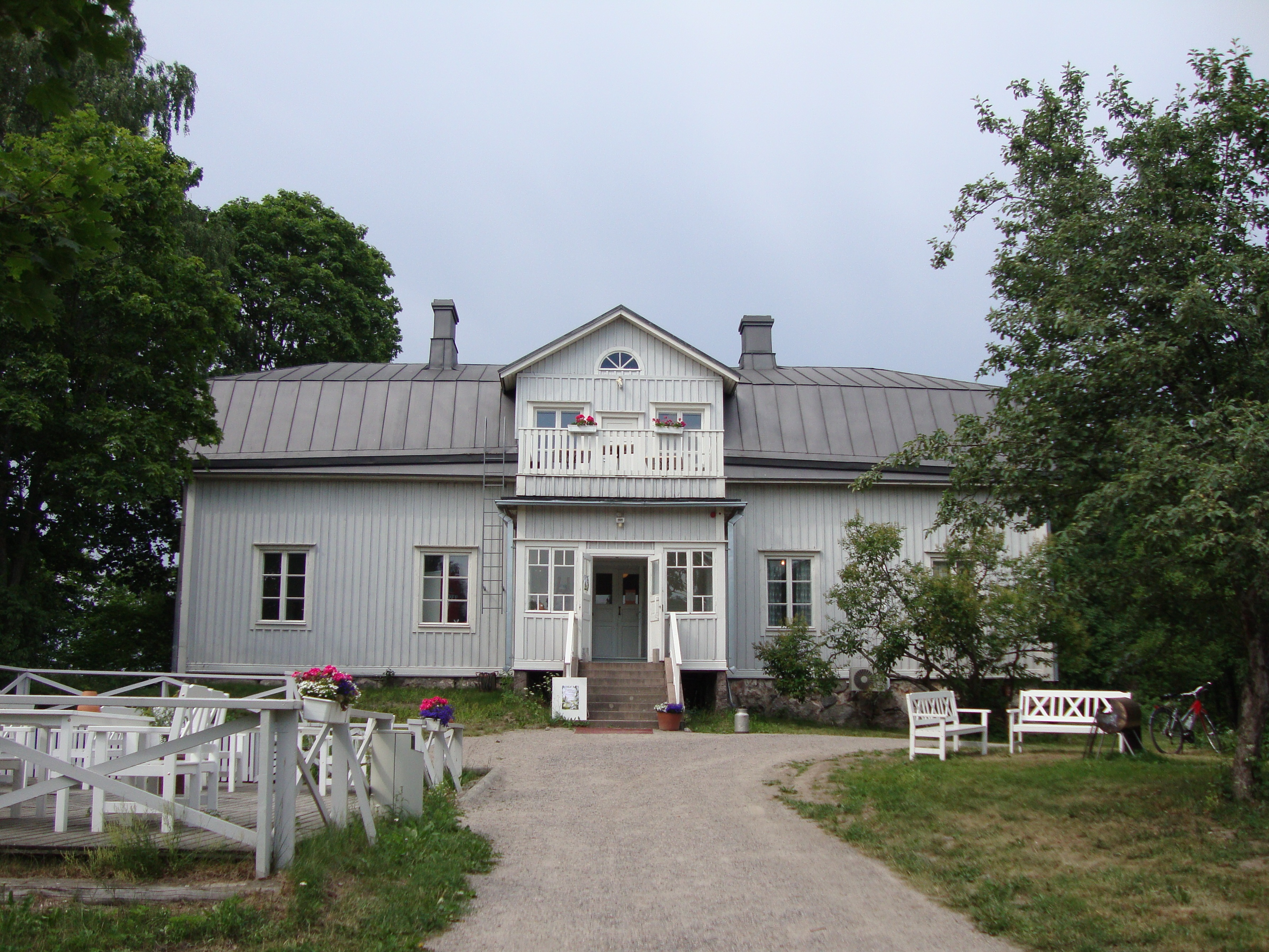 The mansion Keravan kartano in Kerava, Finland - Build in the early 1800s